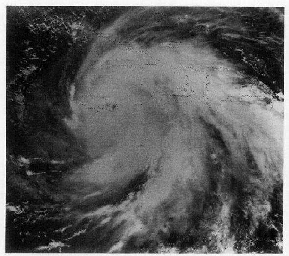 Visible satellite image of Hurricane Gilbert making landfall in eastern Jamaica